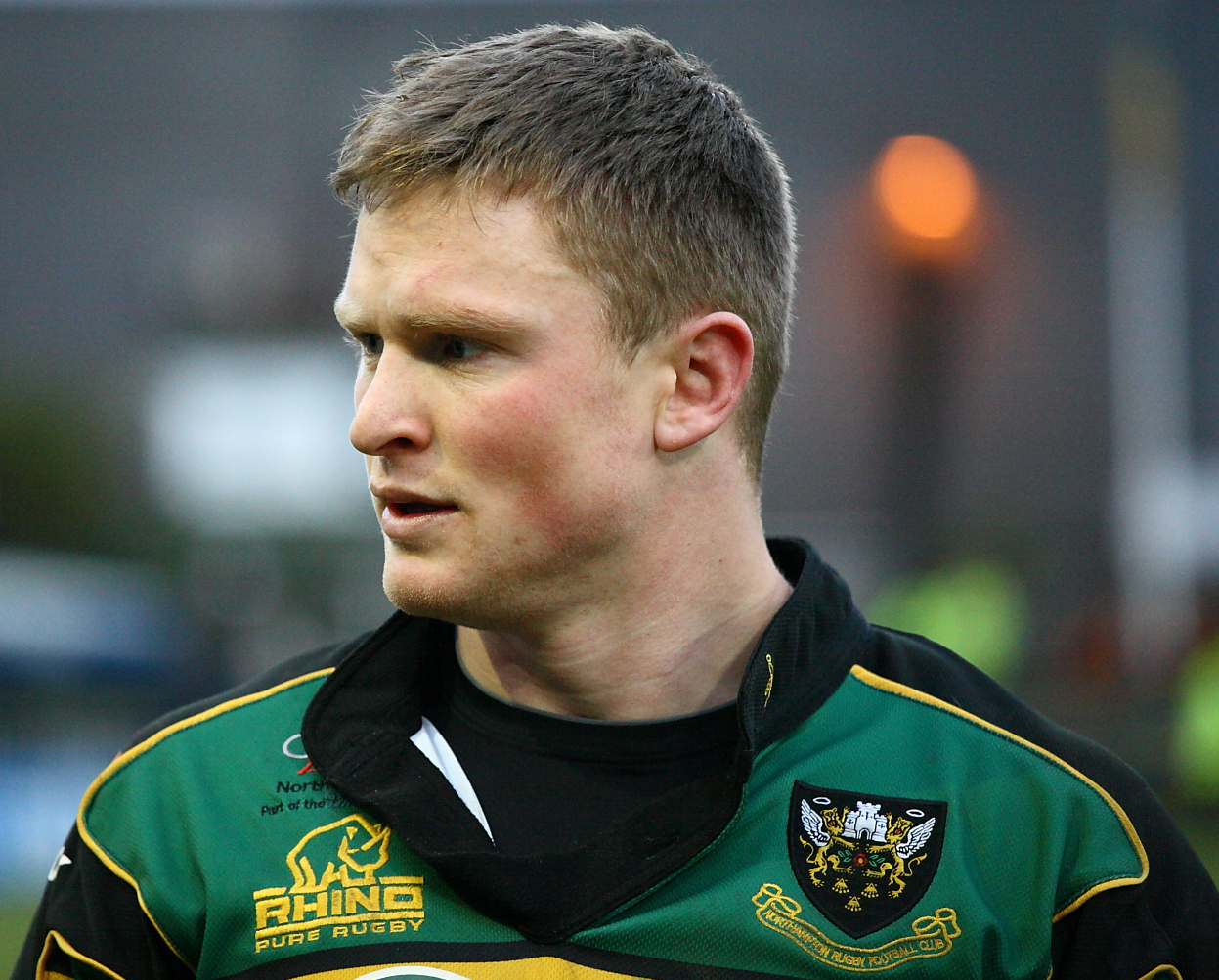 Chris Ashton